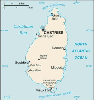 The island is located at 13 53 N, 60 58 W and it totals of 616 sq km.